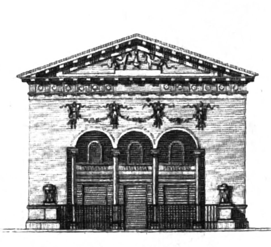 Elevation of the principal facade of the Théâtre des Jeunes Artistes in Paris